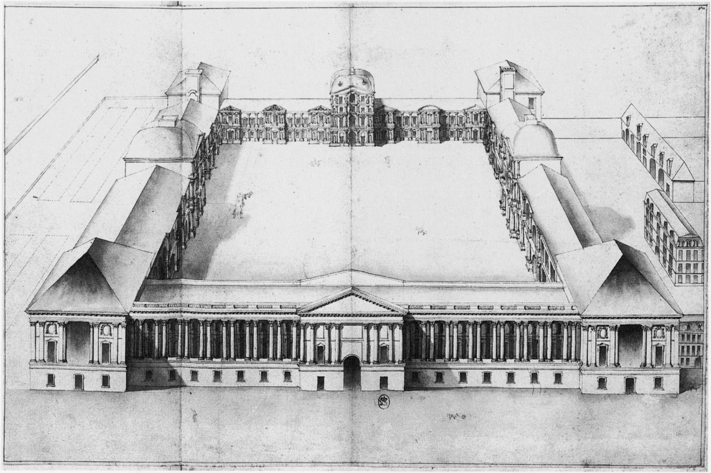 Perspective bird's-eye view of the Louvre from the east, drawing by Claude Perrault, early 1668